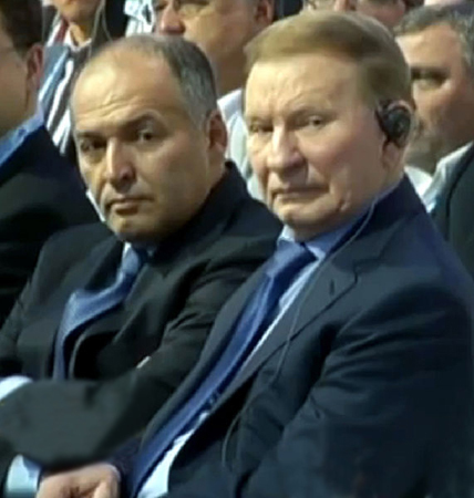 Leonid Kuchma and Viktor Pinchuk, 12 September 2014.